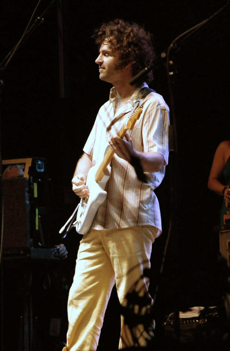 Dweezil Zappa performing on the River Stage at Bluesfest 2008 in Ottawa.